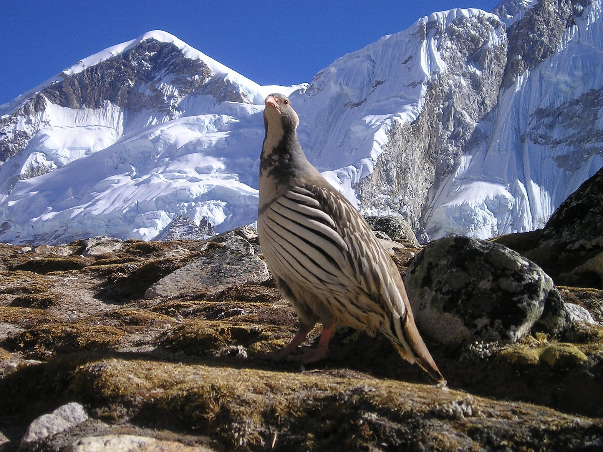 Tibetan Snowcock Tetraogallus tibetanus, Nepal